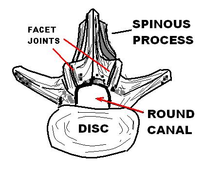 Normal human lumbar spinal canal.